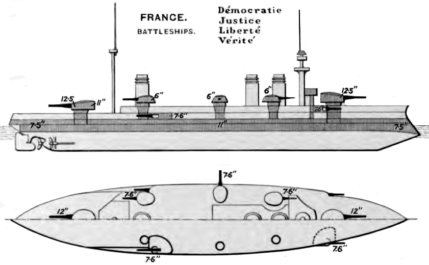 Right elevation and deck plan depicting French Liberté class battleship. Top diagram (right elevation) shows armour thickness in inches. Bottom diagram (deck plan) shows gun sizes in inches.